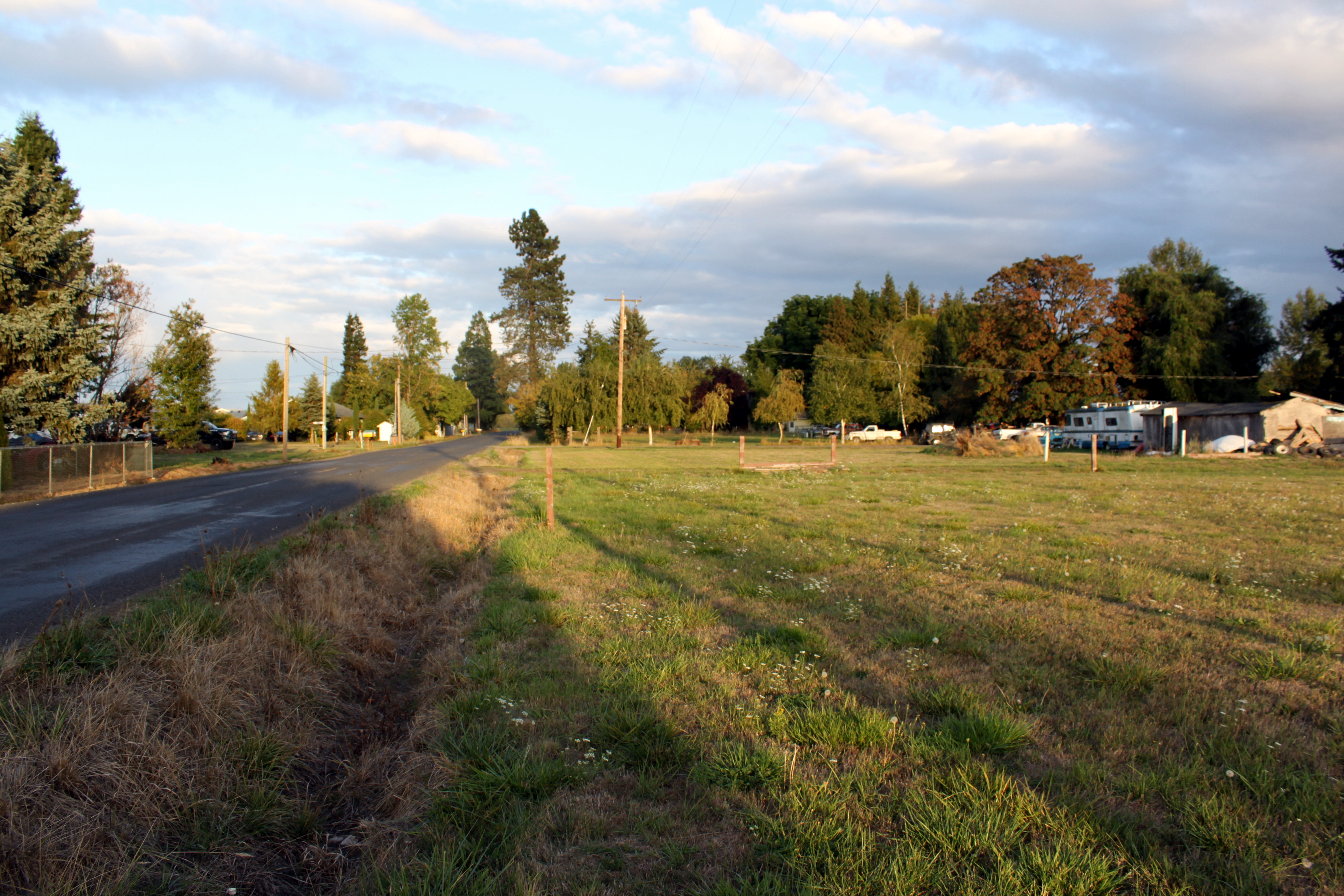 Whiteson, Oregon along Whiteson Road.